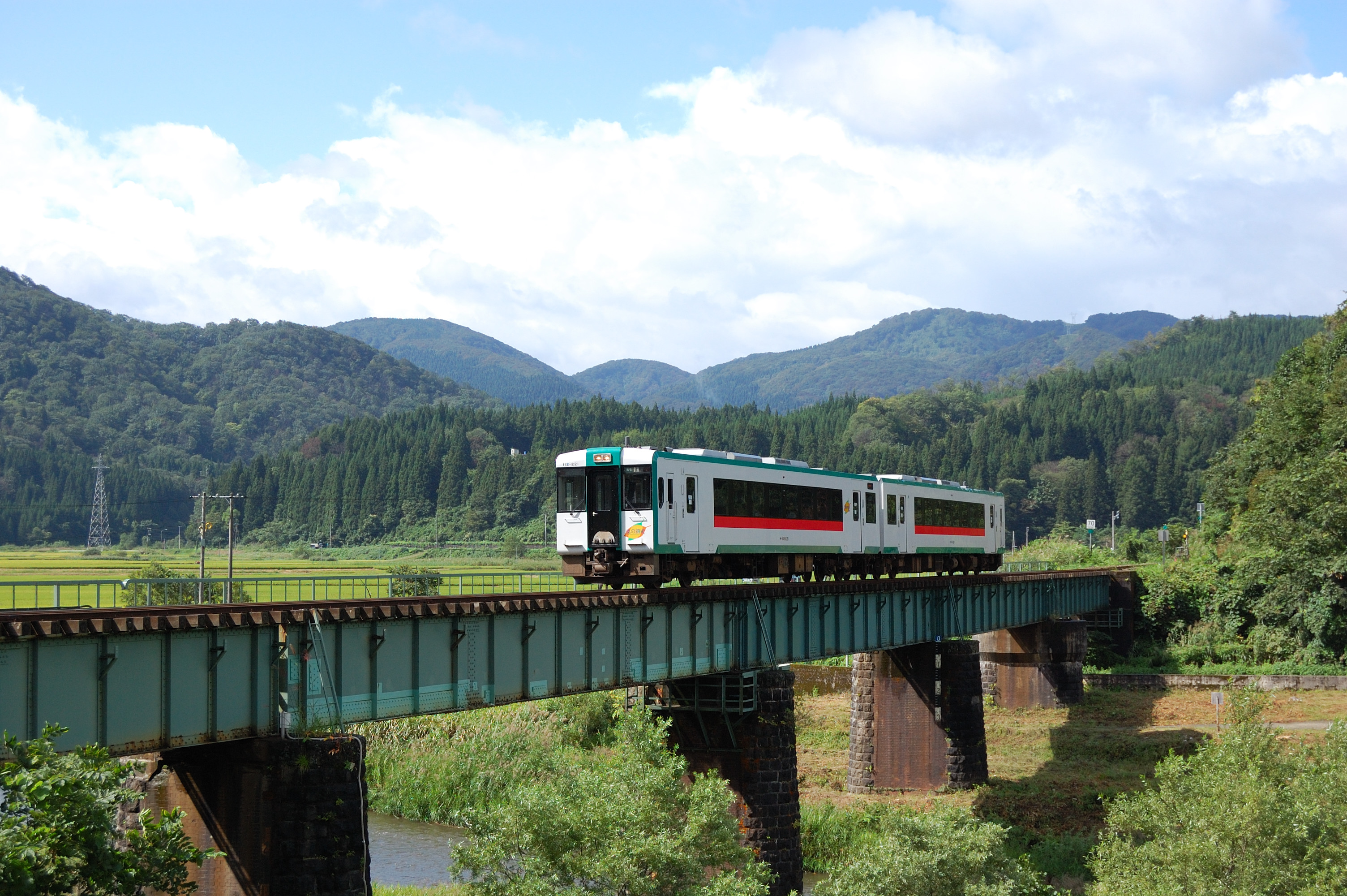 DMU train of Rikuu West Line crossing the Tsunokawa River in Tozawa, Yamagata, Japan. Nikon D40 + AF-S DX Zoom-Nikkor 18-55mm f/3.5-5.6G ED II